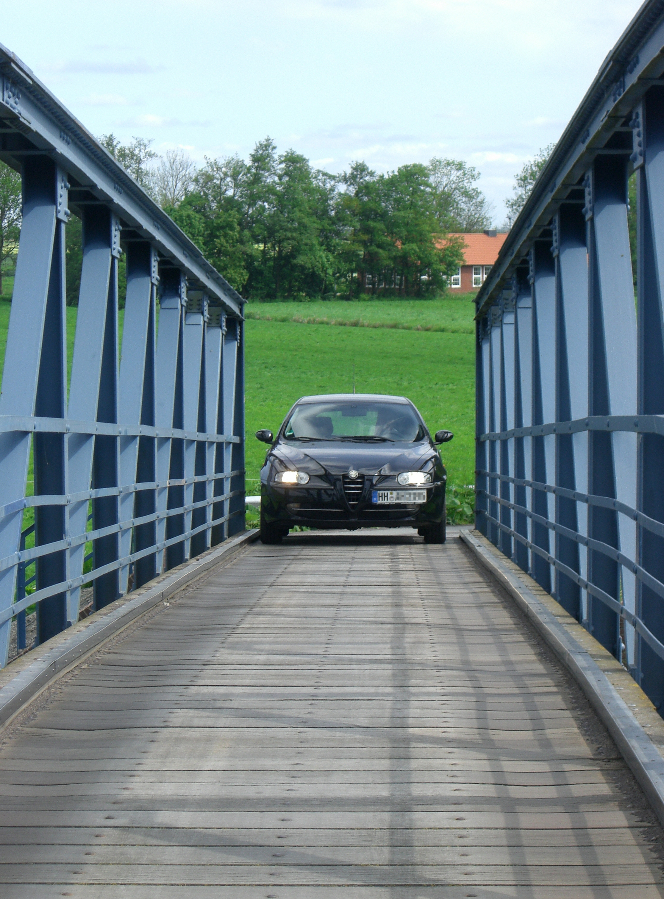 Bridge over the Leda river in Amdorf, district of Leer, East Frisia, Germany. The bridge is Germany's narrowest bridge that can be crossed by cars. The maximum weight of a car may not exceed two tons, the maximum width is 1,80 meter. Traffic over the bridge is organized with traffic lights. The photo was taken by my girlfriend, I uploaded it with her permission.